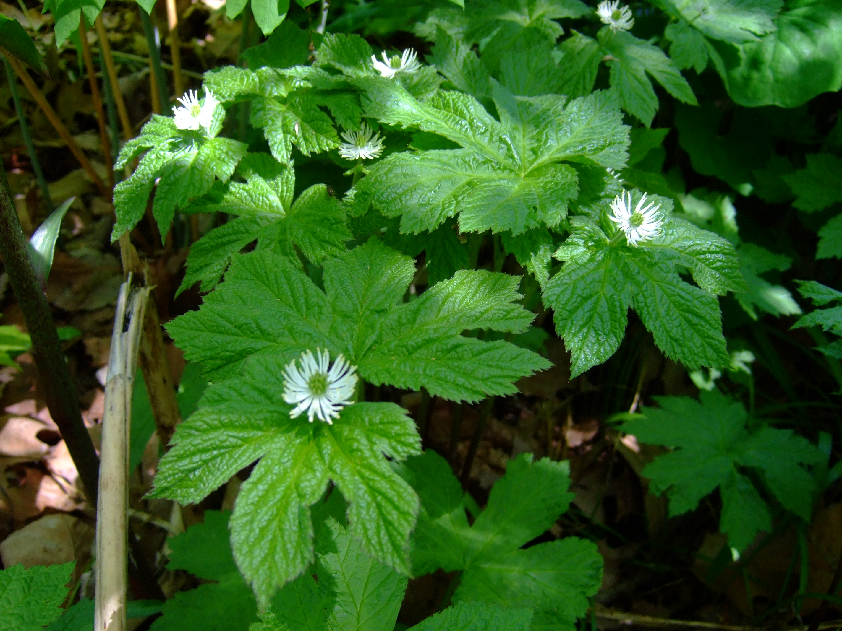 Hydrastis canadensis in the garden of botanist Robert R. Kowal in Madison, Wisconsin, USA